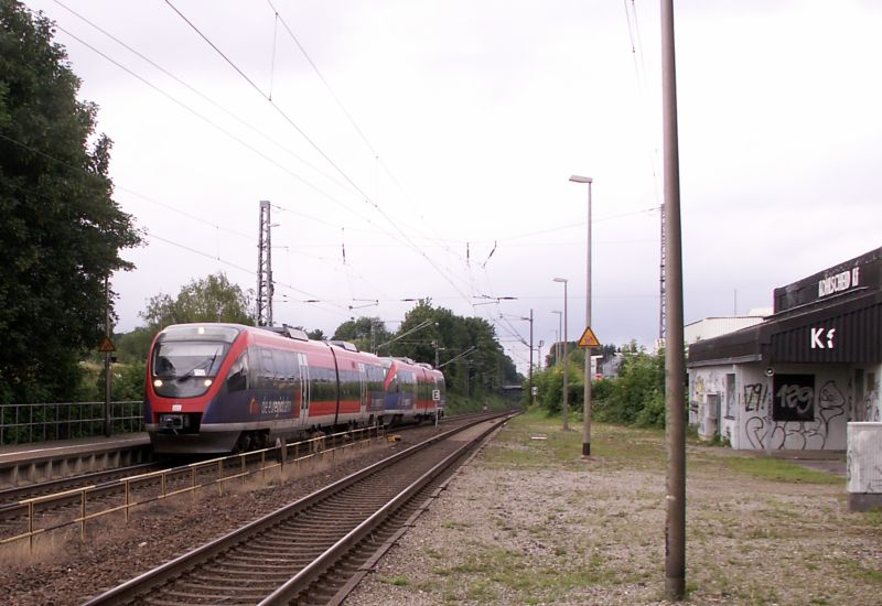 Train of the Euregiobahn on the railway line Aachen–Mönchengladbach at Kohlscheid station